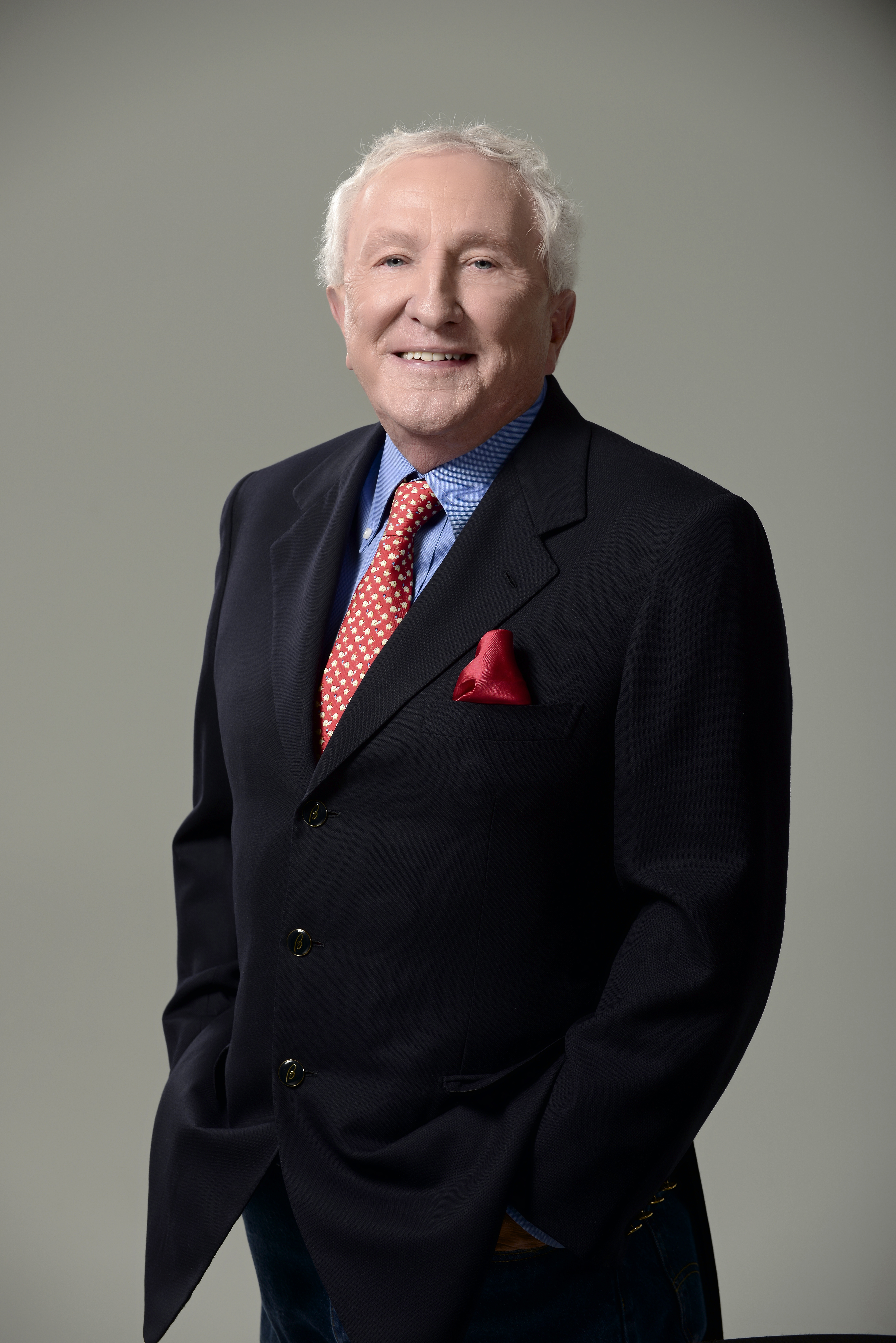 Photo of B.P. Loughridge, 2014.